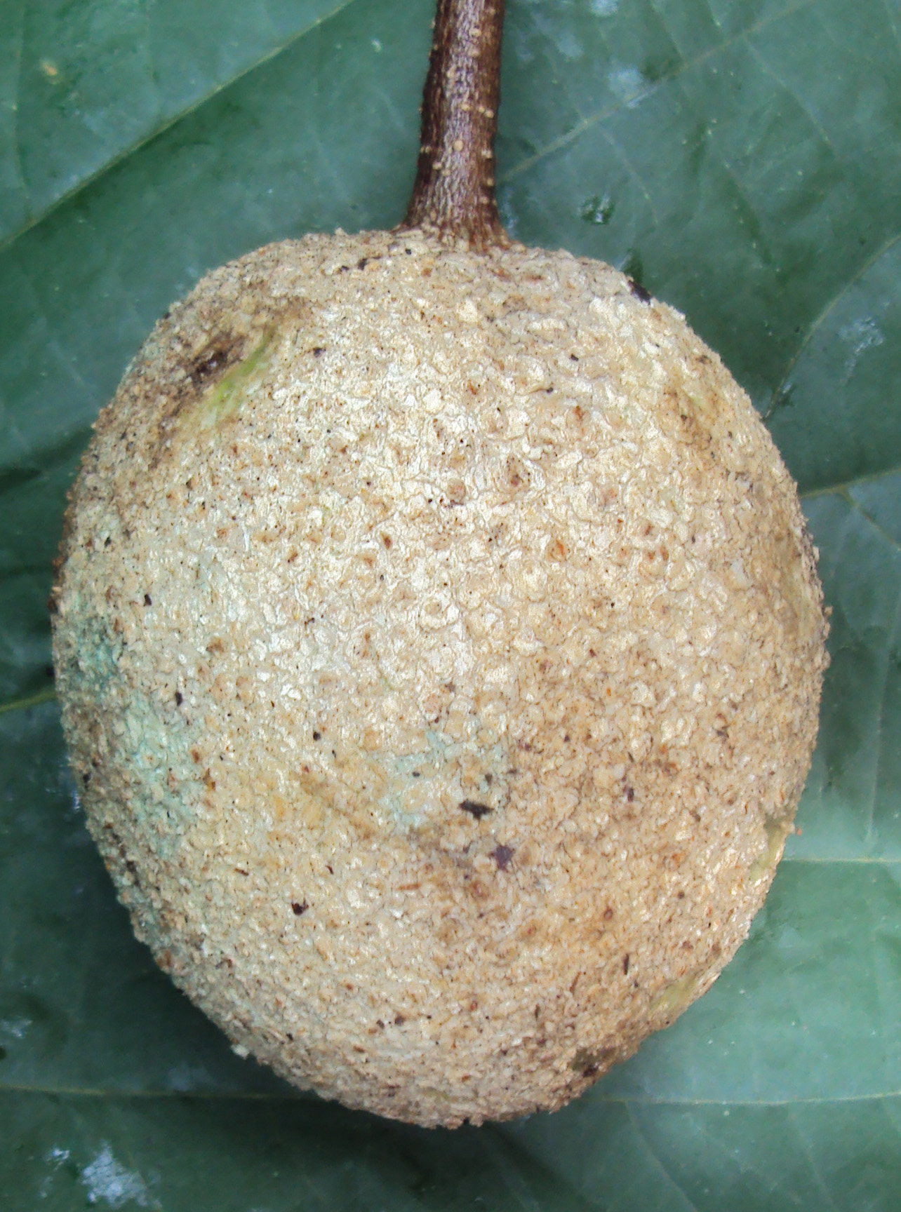 Crataeva magna fruit